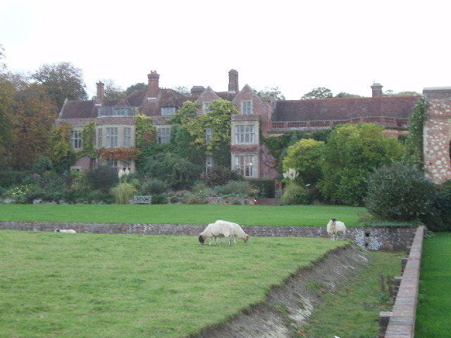 Glyndebourne - house with sheep and ha-ha. Glyndebourne is a Tudor manor house. The Christie family lived there from 1617. The opera house is just to the right of this photo, and opera goers can enjoy the gardens and walk on the terrace in front of the house. It is surrounded by pasture, and this photo shows how the ha-ha keeps the sheep out while not blocking the view from the house.